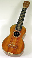 Image of Martin 3K Professional Ukulele